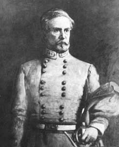 Lt. Gen. John C. Pemberton, commanding the Confederate Army of Vicksburg, NPS Historical Handbook: Vicksburg - National Park Service